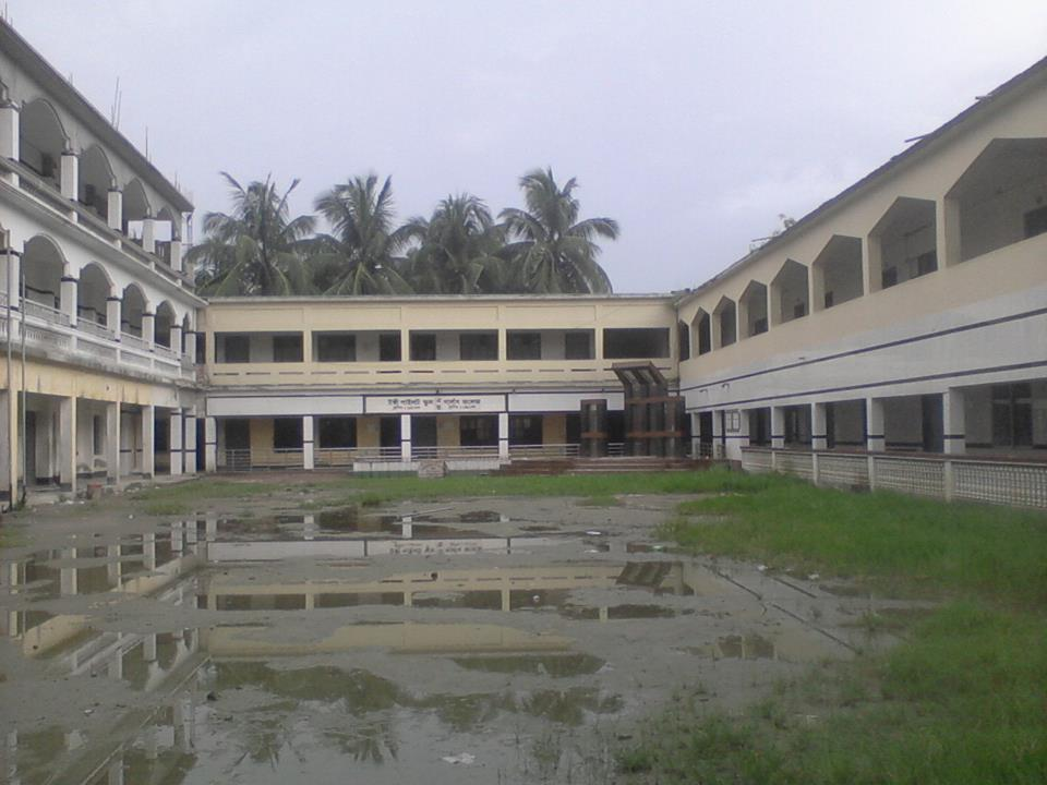 TPSGC